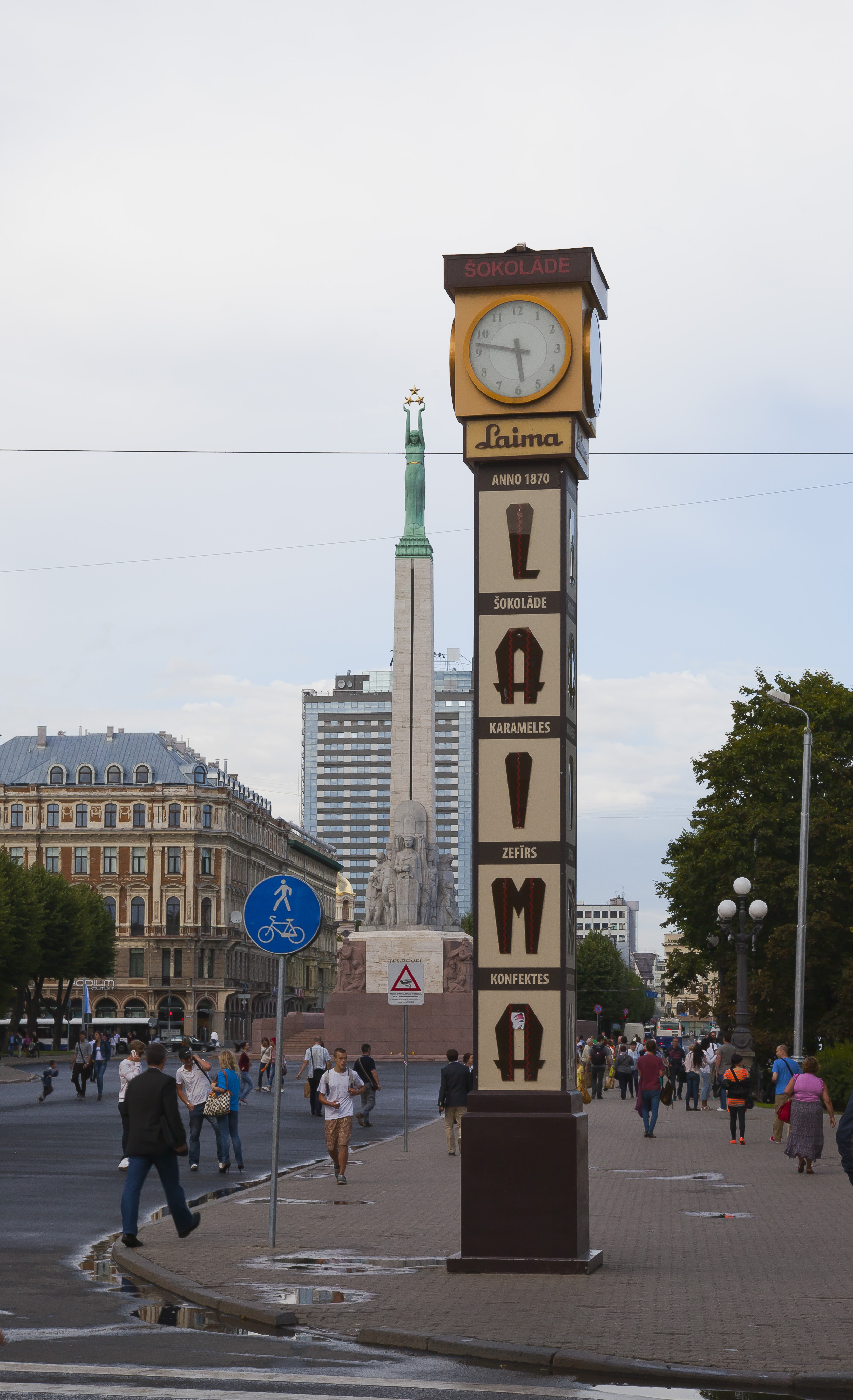 Laima clock, Riga, Latvia